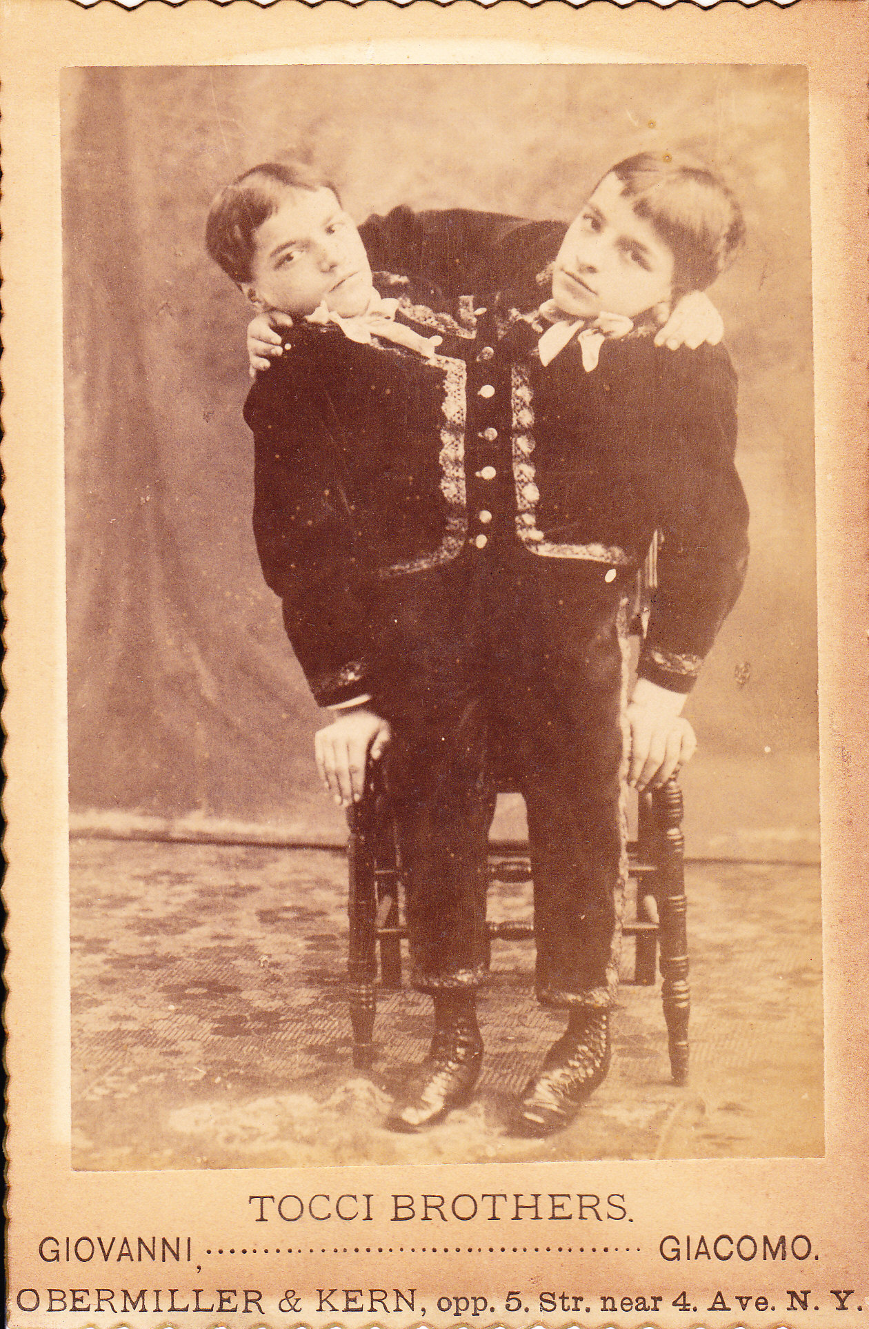 1880's cabinet card photograph of the Tocci Brothers by Obermiller & Kern. It was sold by the Tocci Brothers.